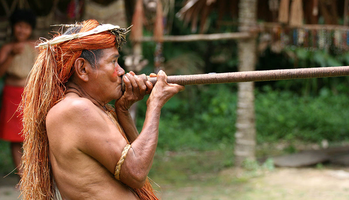 A Yagua (Yahua) tribeman demonstrating the use of blowgun (blow dart), at one of the Amazonian islands near Iquitos, Peru.